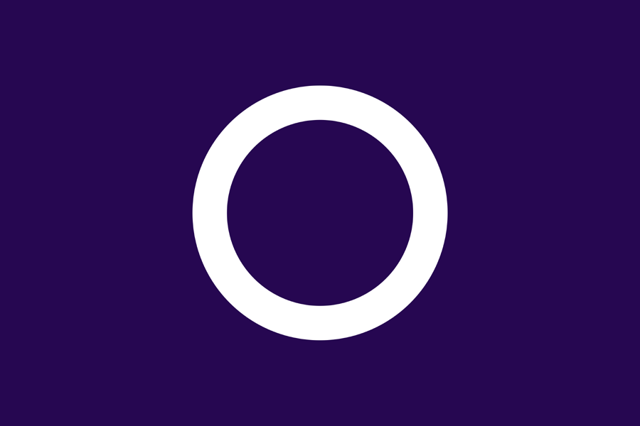 Flag of Maebashi, Gunma